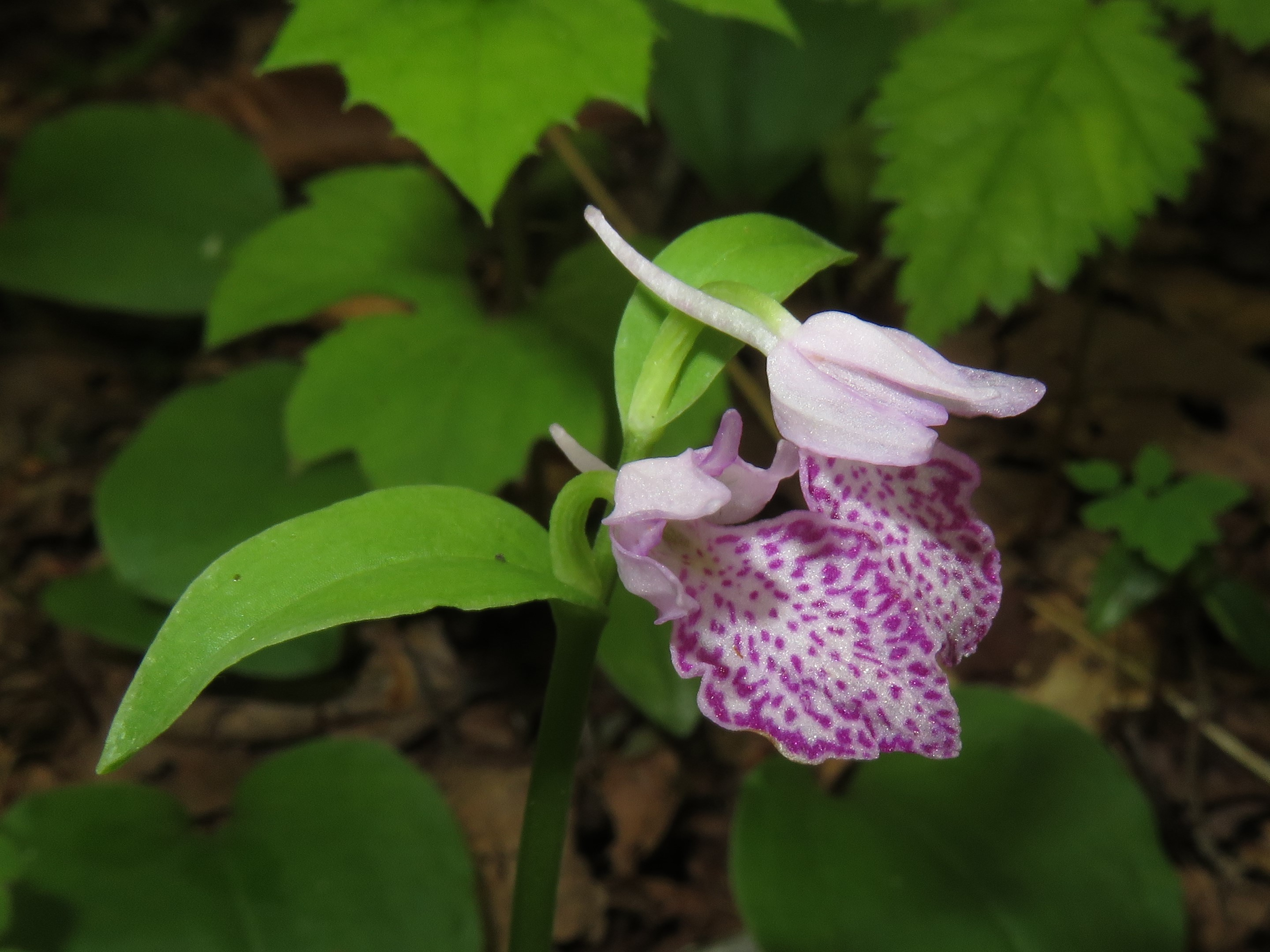 Galearis cyclochila, North area, Tochigi pref., Japan